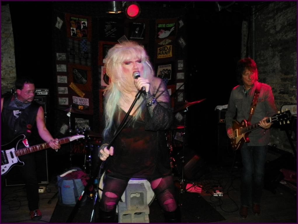 Jayne County & The Electric Chairs at the 2012 Max's Kansas City Reunion at Bowery Electric